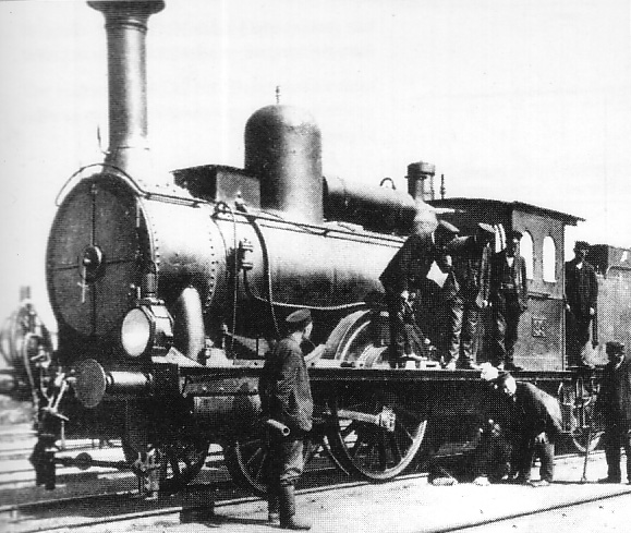 Borsig stream locomotive used on Warsaw-Vienna Railway, ca. 1850